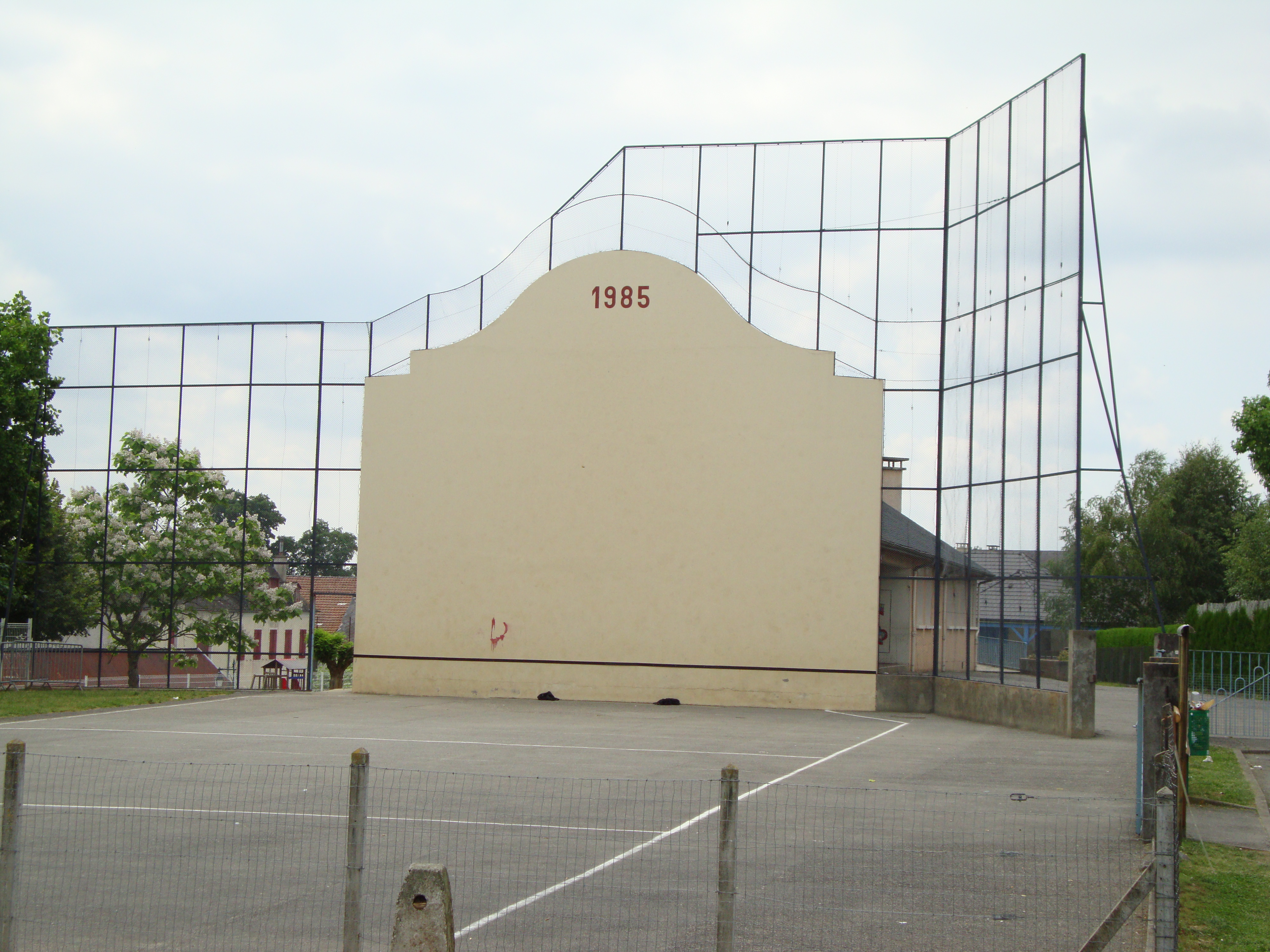 Ledeuix (Pyr-Atl, Fr) fronton